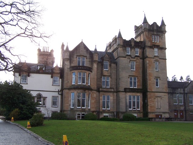 Cameron House Hotel, Loch Lomond - 4 1599440